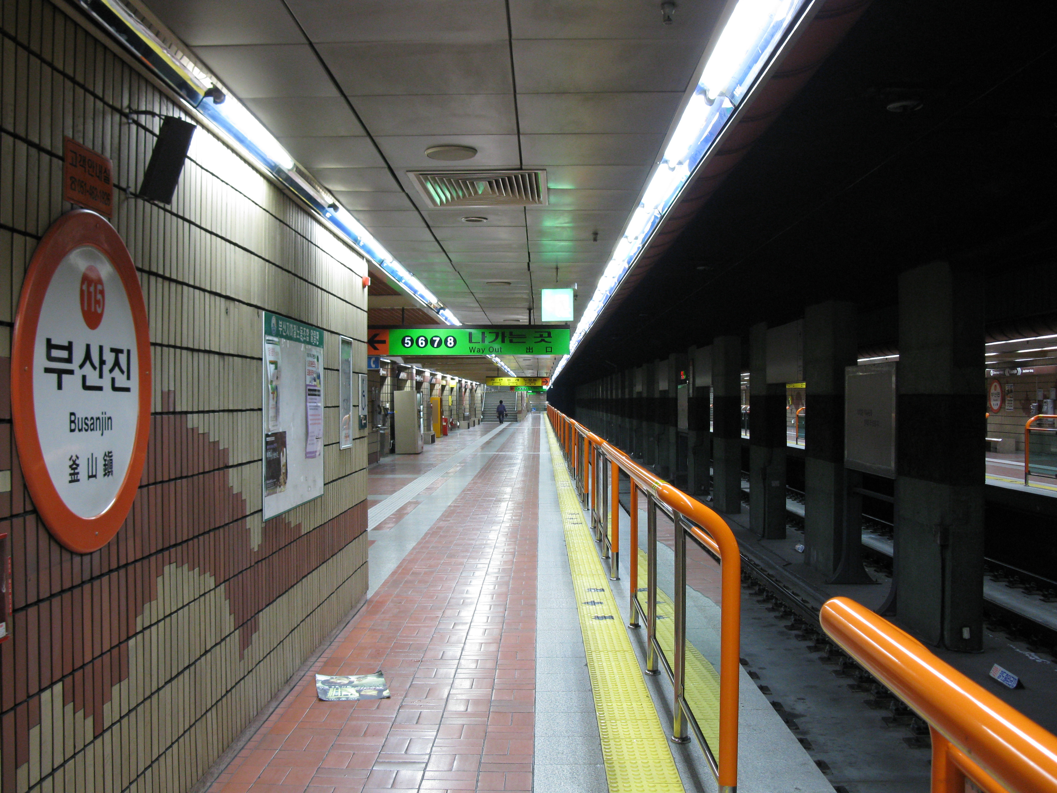 Busanjin Station platform (Busan Subway Line 1)